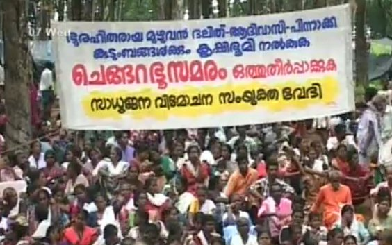 Photo: indiashines